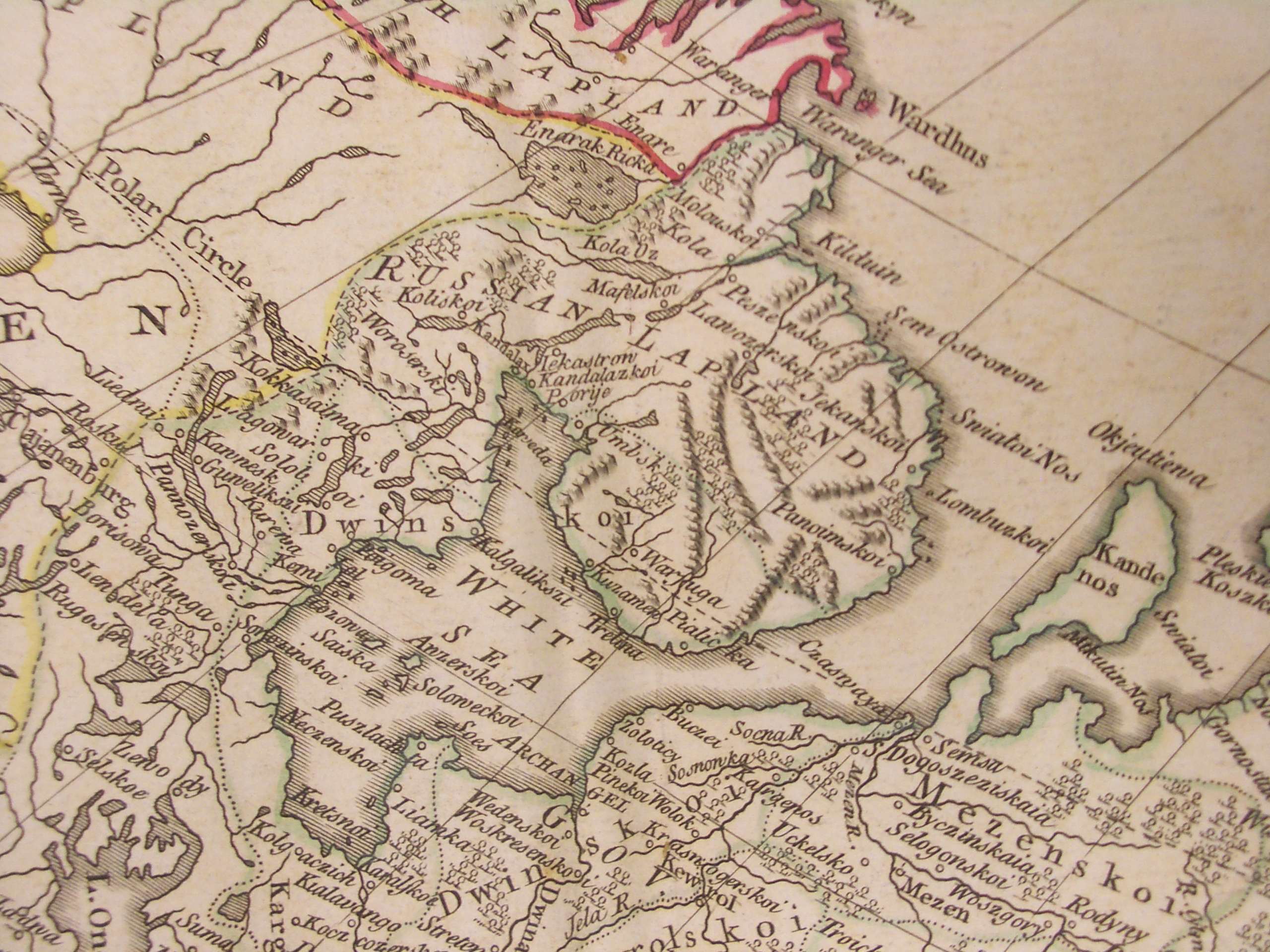 A fragment of the map of Russian Empire (pages 21-22), said to be based on d'Anville's work, in Thomas Kithen's "Atlas describing the Whole Universe"